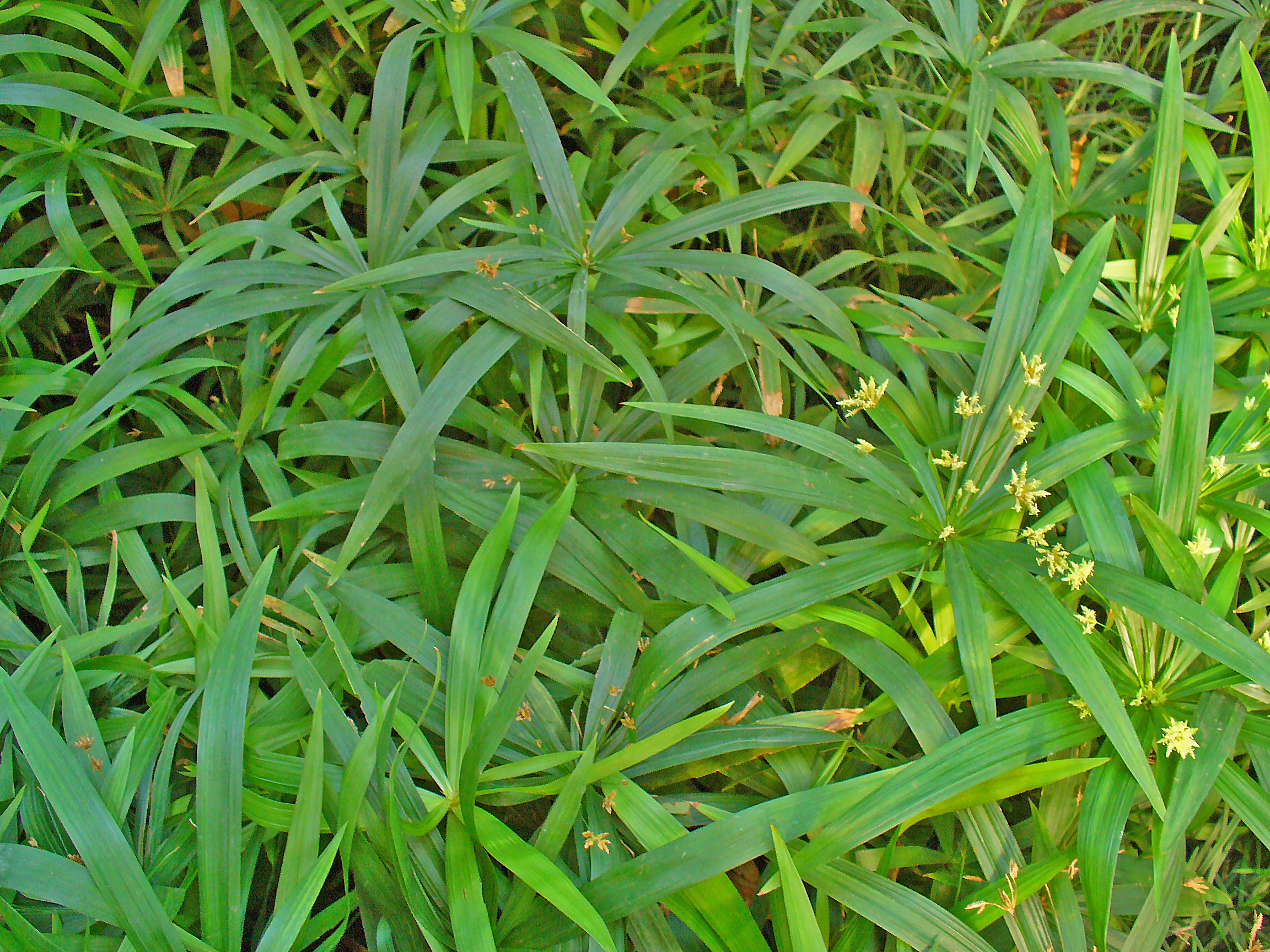 Cyperus albostriatus, Cyperaceae, Dwarf Umbrella-sedge, habitus; Botanical Garden KIT, Karlsruhe, Germany.